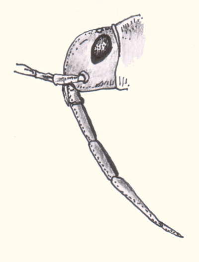 Sucing mouthparts. Bug. Heteroptera A drawing by Halvard from Norway.